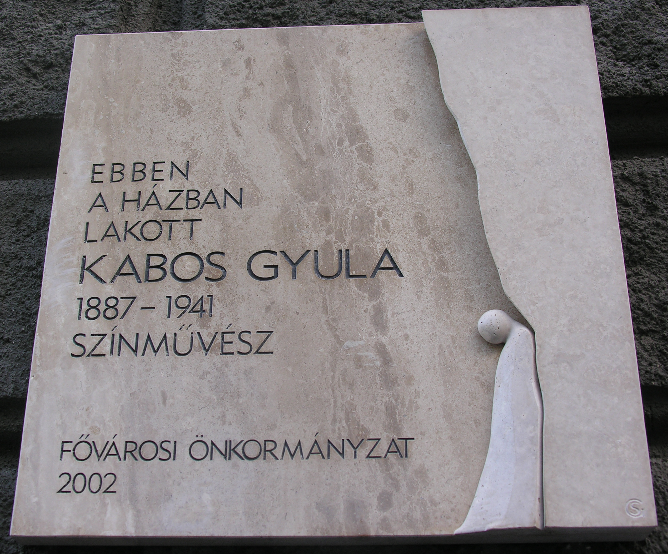 Commemorative plaque of Gyula Kabos, Budapest District VI, Király Street No 76